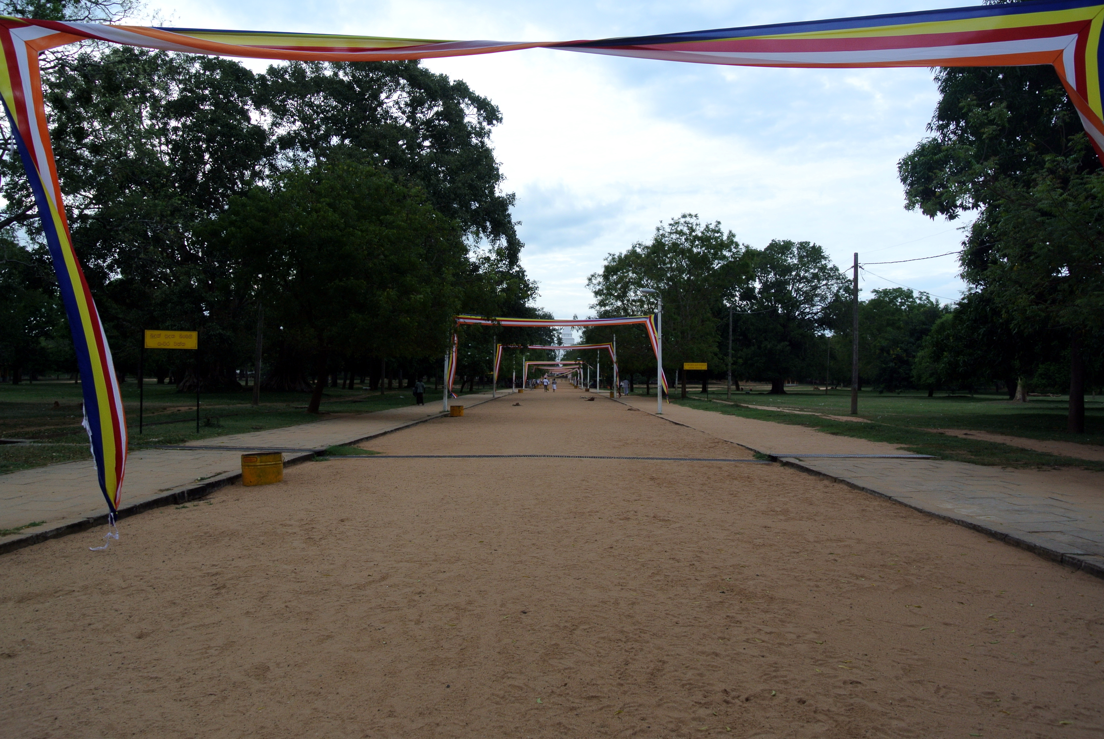 Path towards the Kiri Vehera, an ancient stupa revered by Buddhists and located on the Kataragama temple complex. Nikon 1 V1 + 1 Nikkor VR 10-30mm f/3.5-5.6